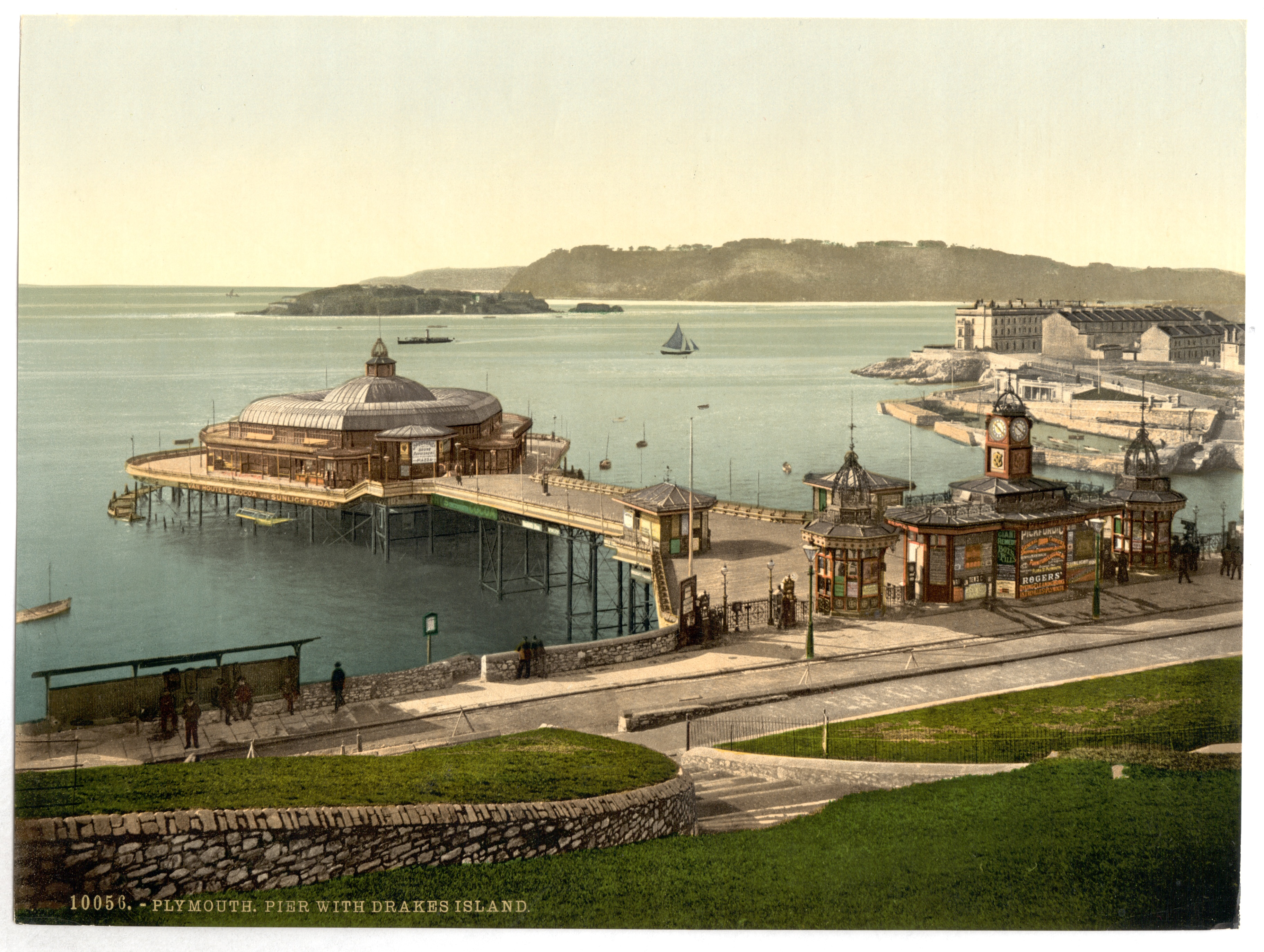 Print no. "10056".; Forms part of: Views of the British Isles, in the Photochrom print collection.; More information about the Photochrom Print Collection is available at Title from the Detroit Publishing Co., Catalogue J-foreign section, Detroit, Mich. : Detroit Publishing Company, 1905.